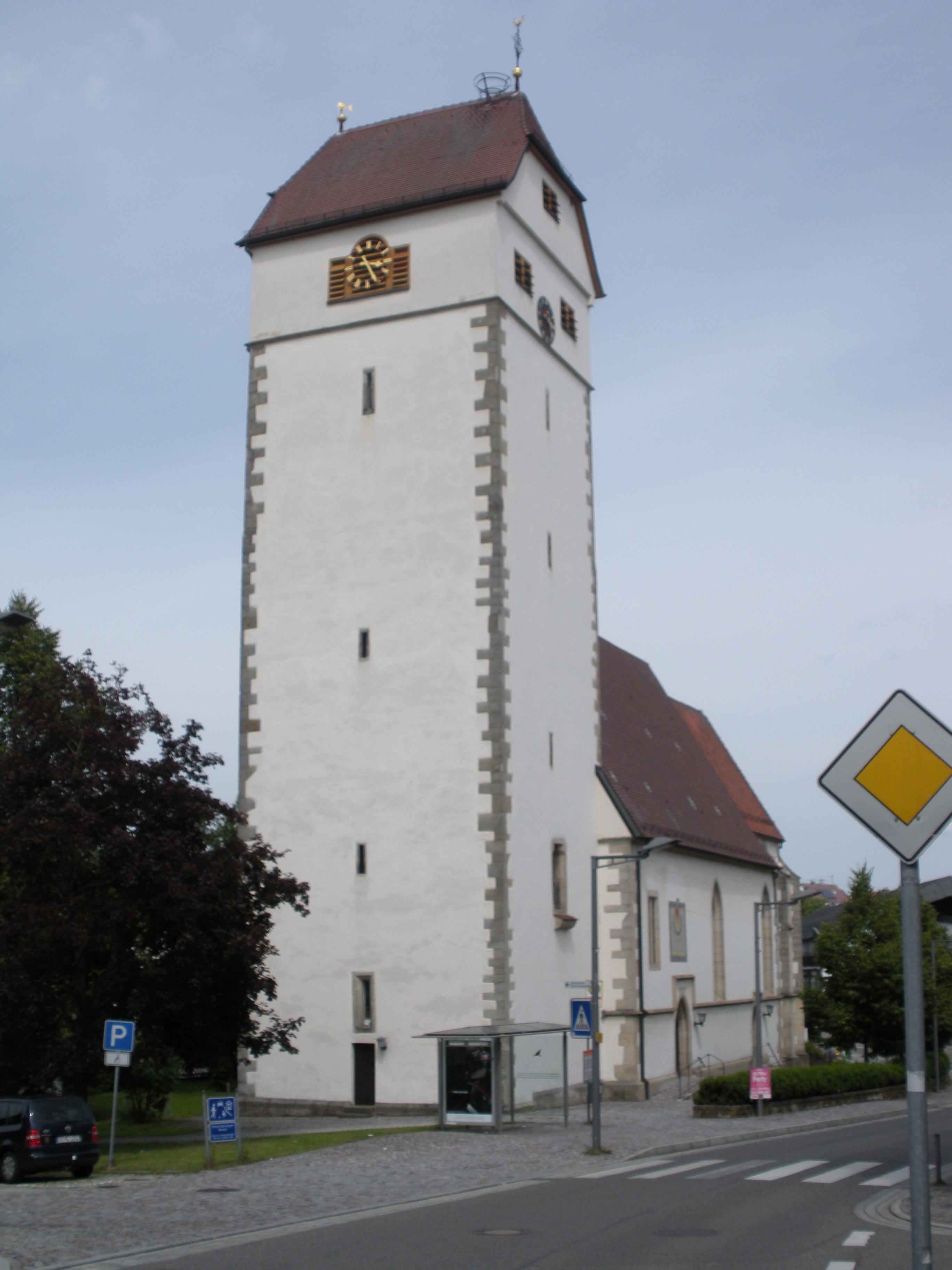 Protestant Church of Dagersheim, City of Boblingen